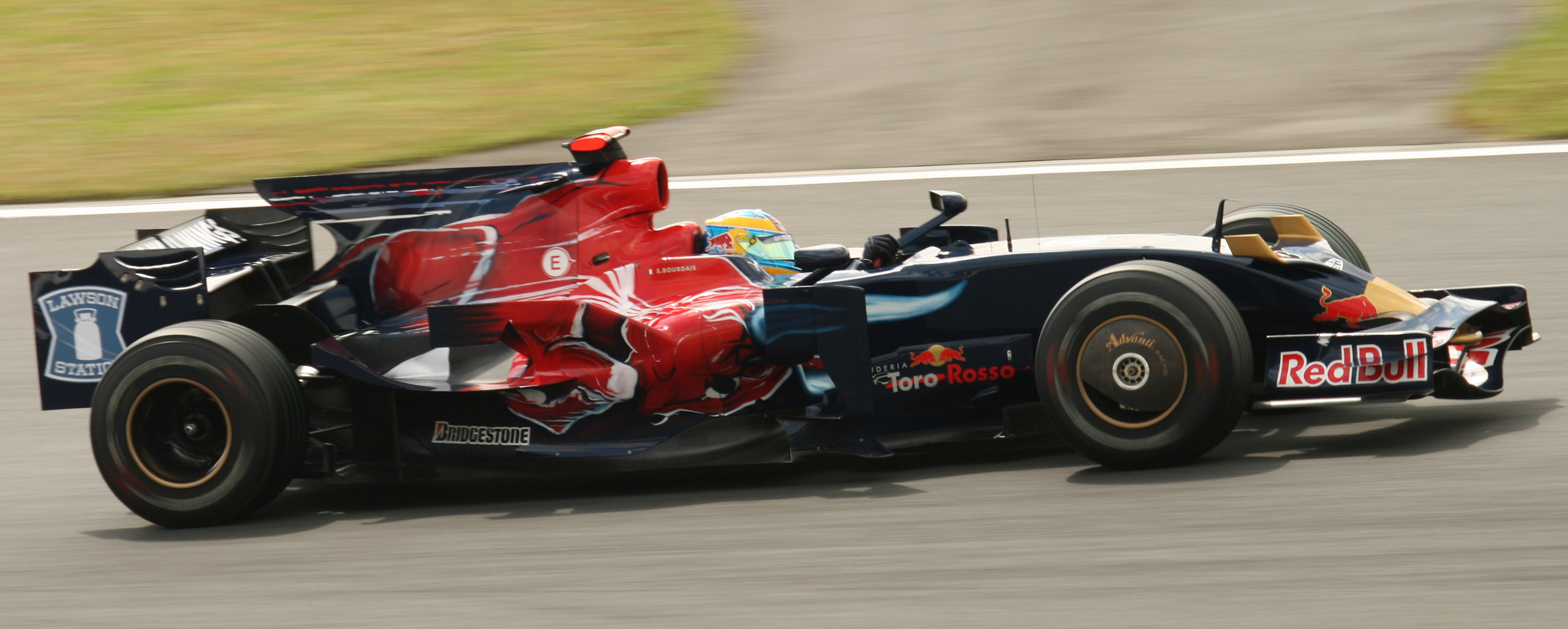 Formula One 2008 Rd.16 Japanese GP: Sébastien Bourdais (Scuderia Toro Rosso) at free practice.